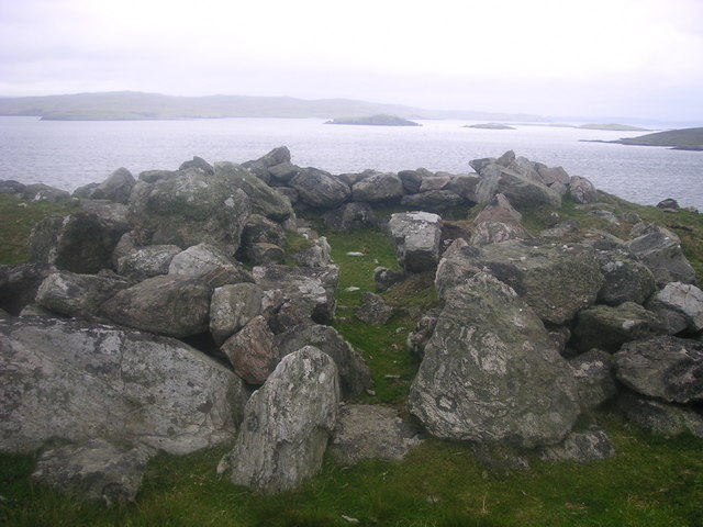 Chambered Cairn, Symbister Ness.